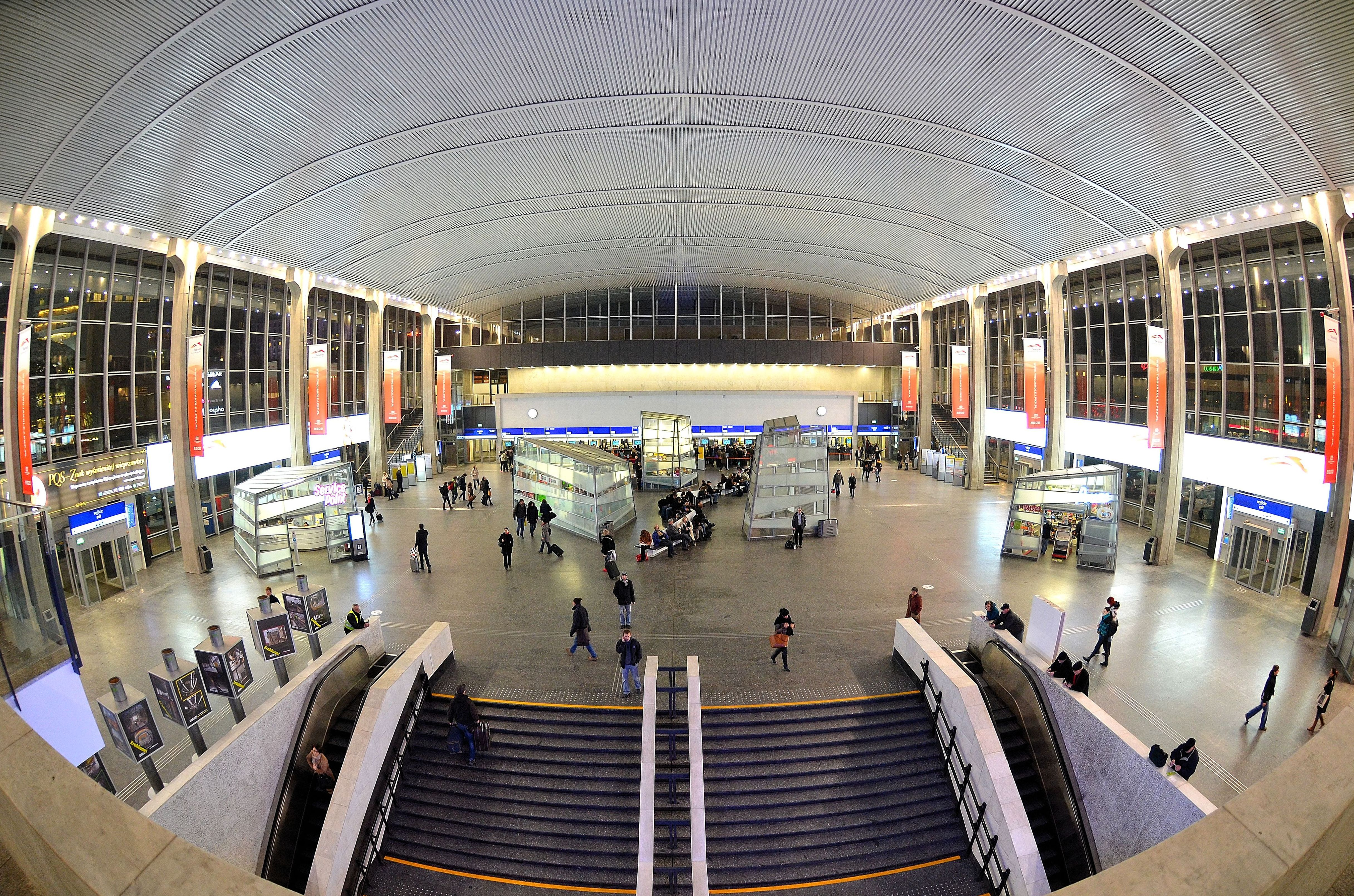 Main hall of Warsaw CentralRailway Station